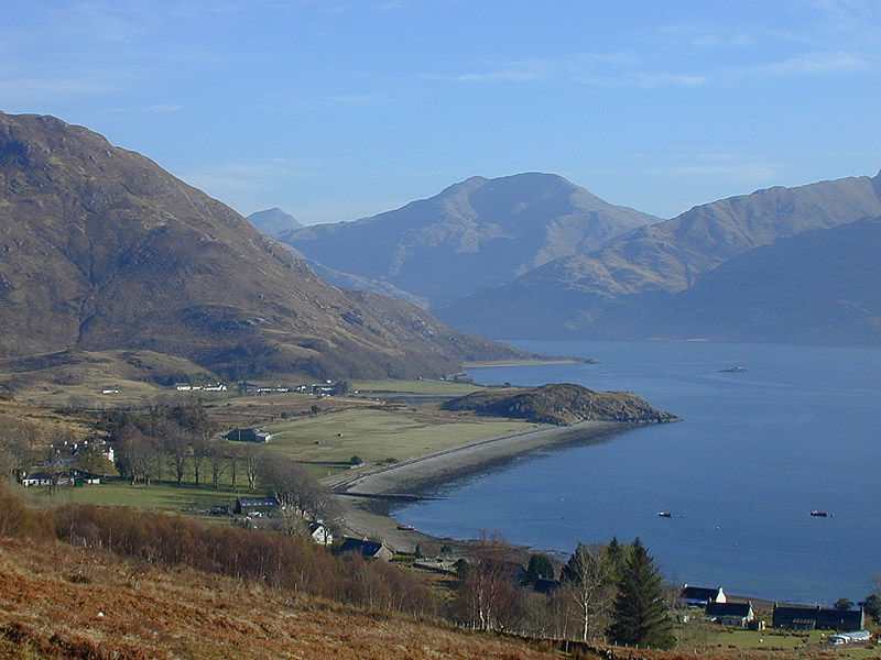 Looking down on Arnisdale and Loch Hourn from the path to the Bealach Arnasdail. Luinne Bheinn can be seen in the distance, with Ben Aden just visible to its left.